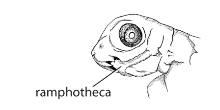 Standard Event System character depiction